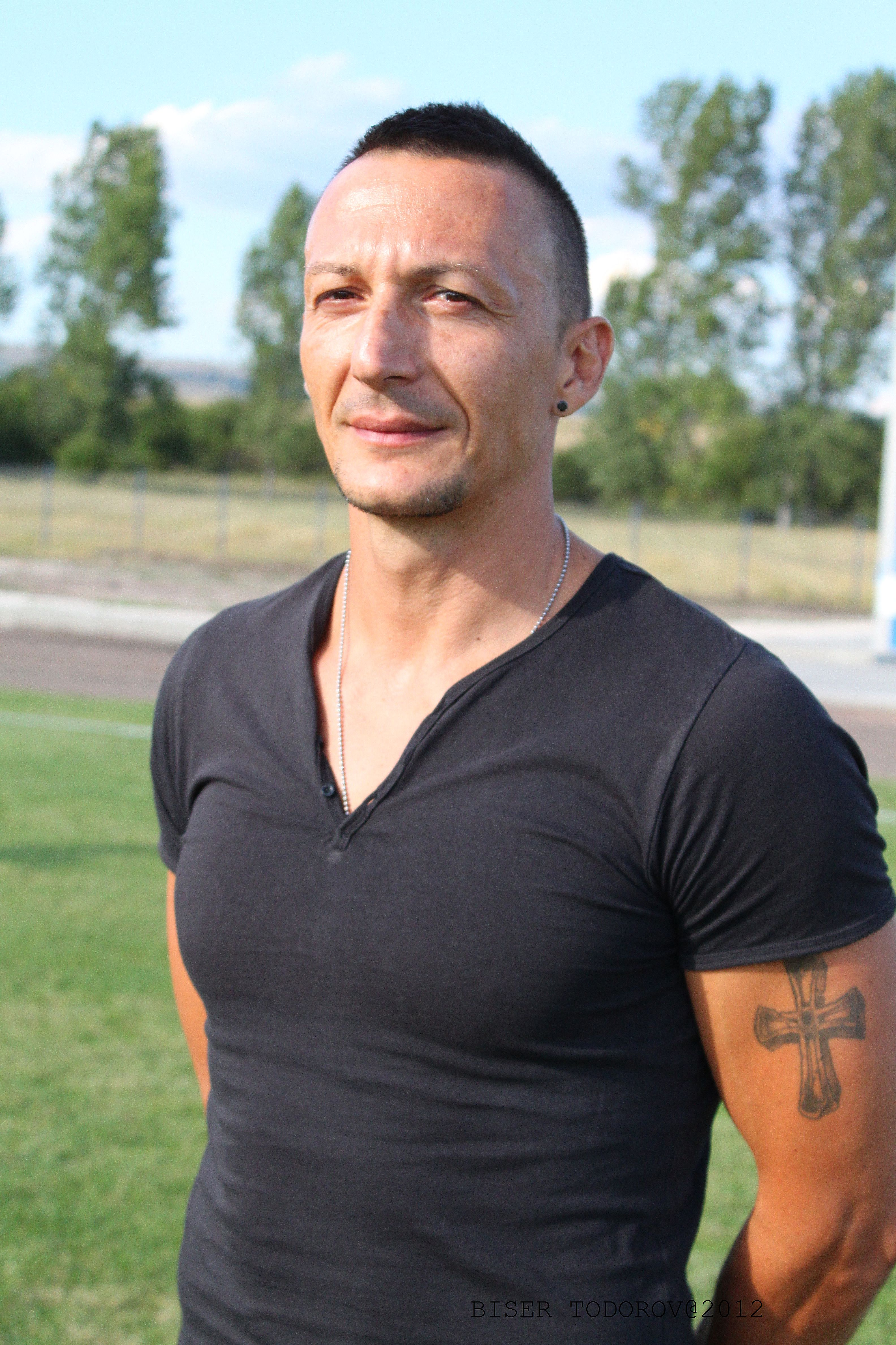 Radivoje Manić (Serbian Cyrillic: Радивоје Манић ; born 16 January 1972 in Pirot) is a Serbian football player who has played at forward.